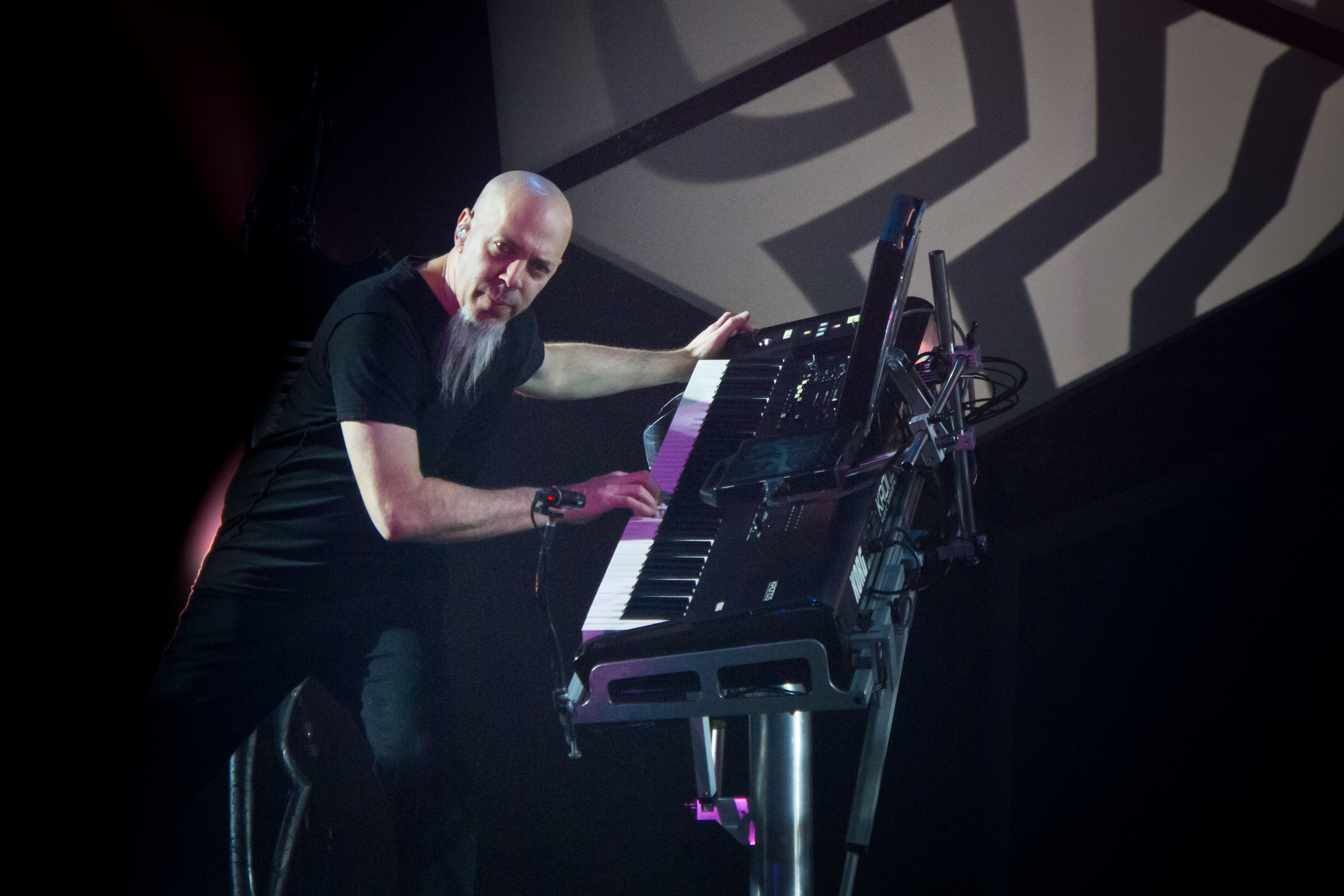 Jordan Rudess live in 2012.